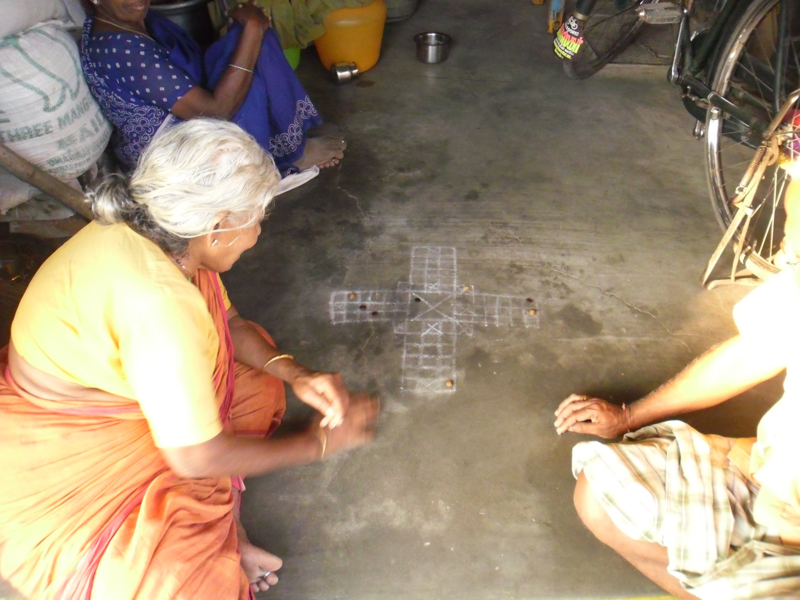 Dhaayak karam play in Tamil Nadu